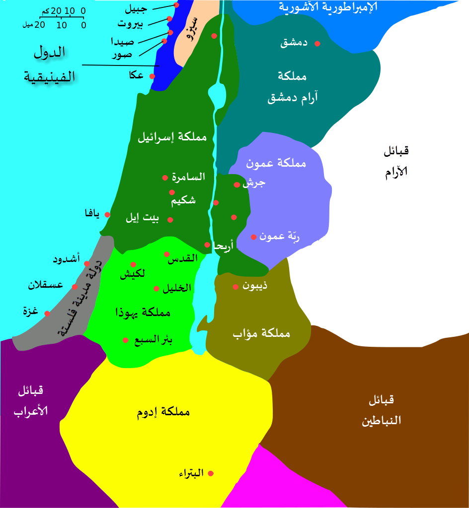 Map of the Levant circa 830 BCE.